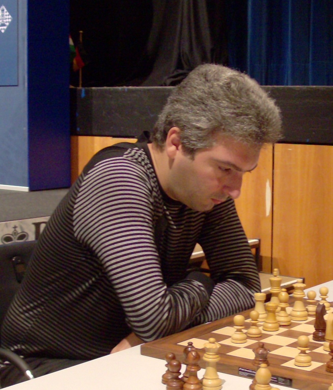 Vladimir Akopian, chess grandmaster from Armenia